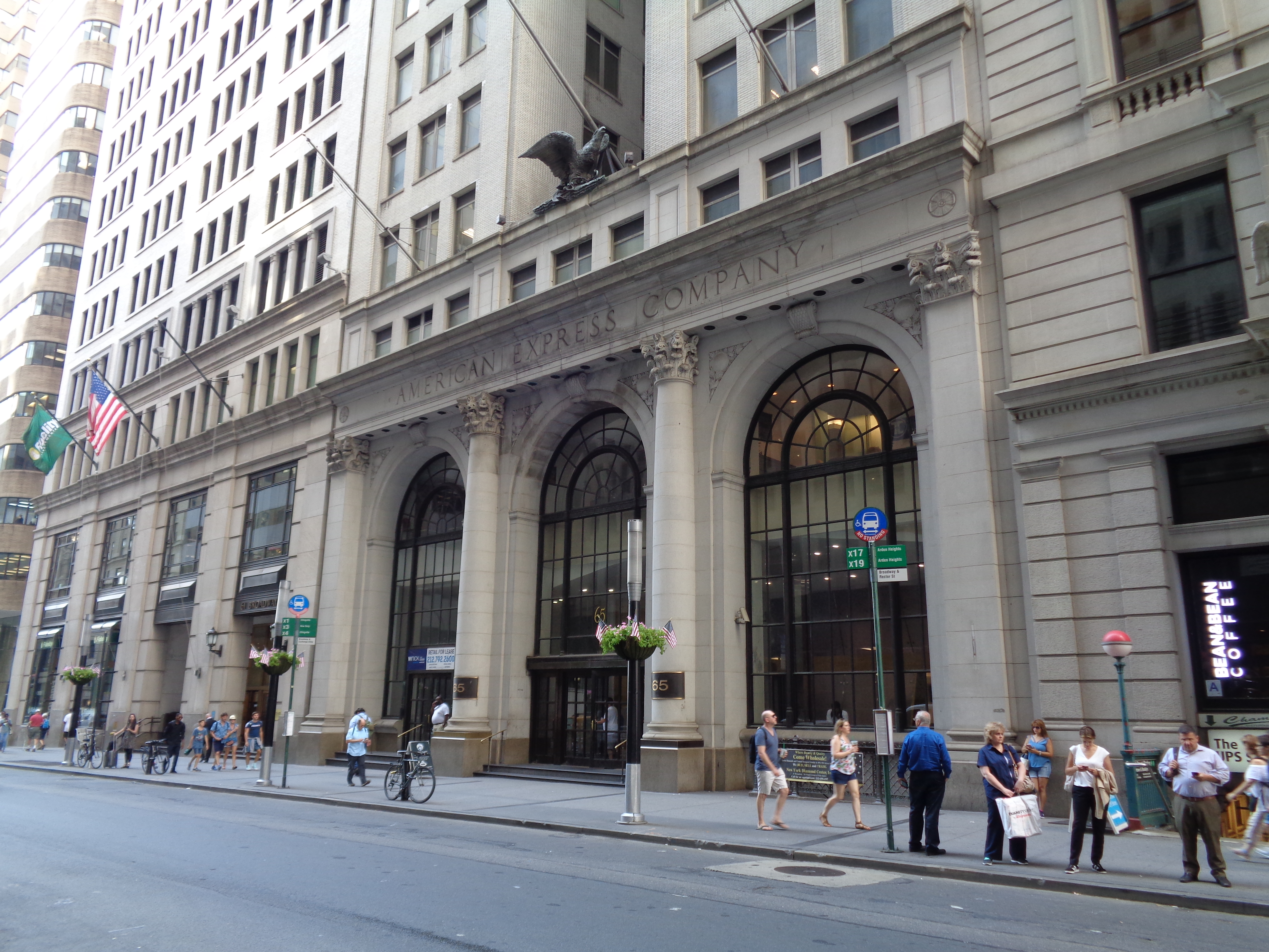 65 Broadway, a.k.a. the American Express Company Building, at Broadway between Exchange Alley (Exchange Place) and Rector Street in the Financial District, Manhattan.